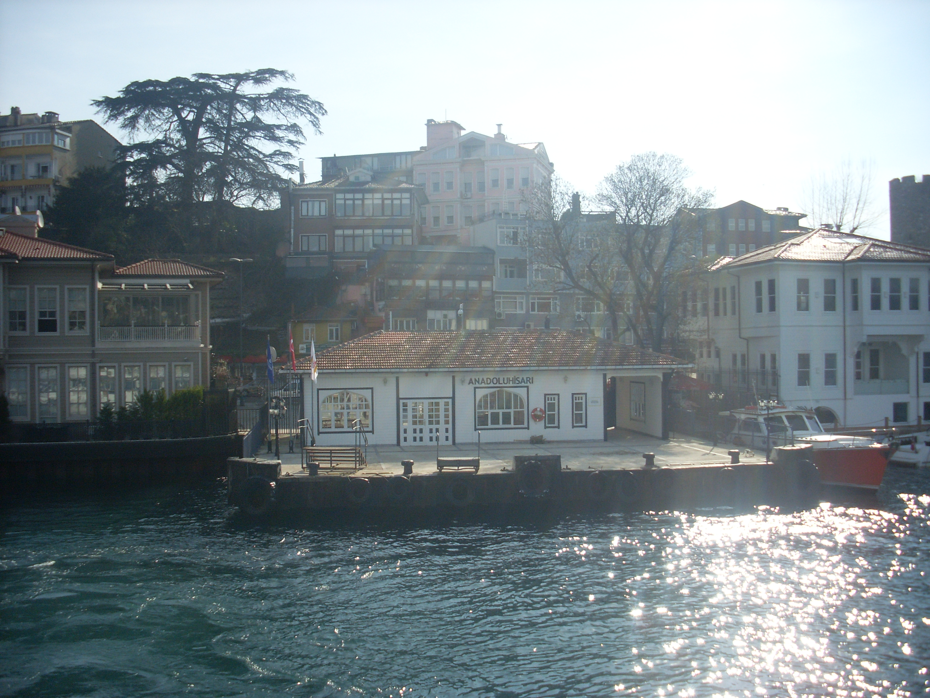 İstanbul - Anadoluhisarı, Beykoz r1 - feb 2013